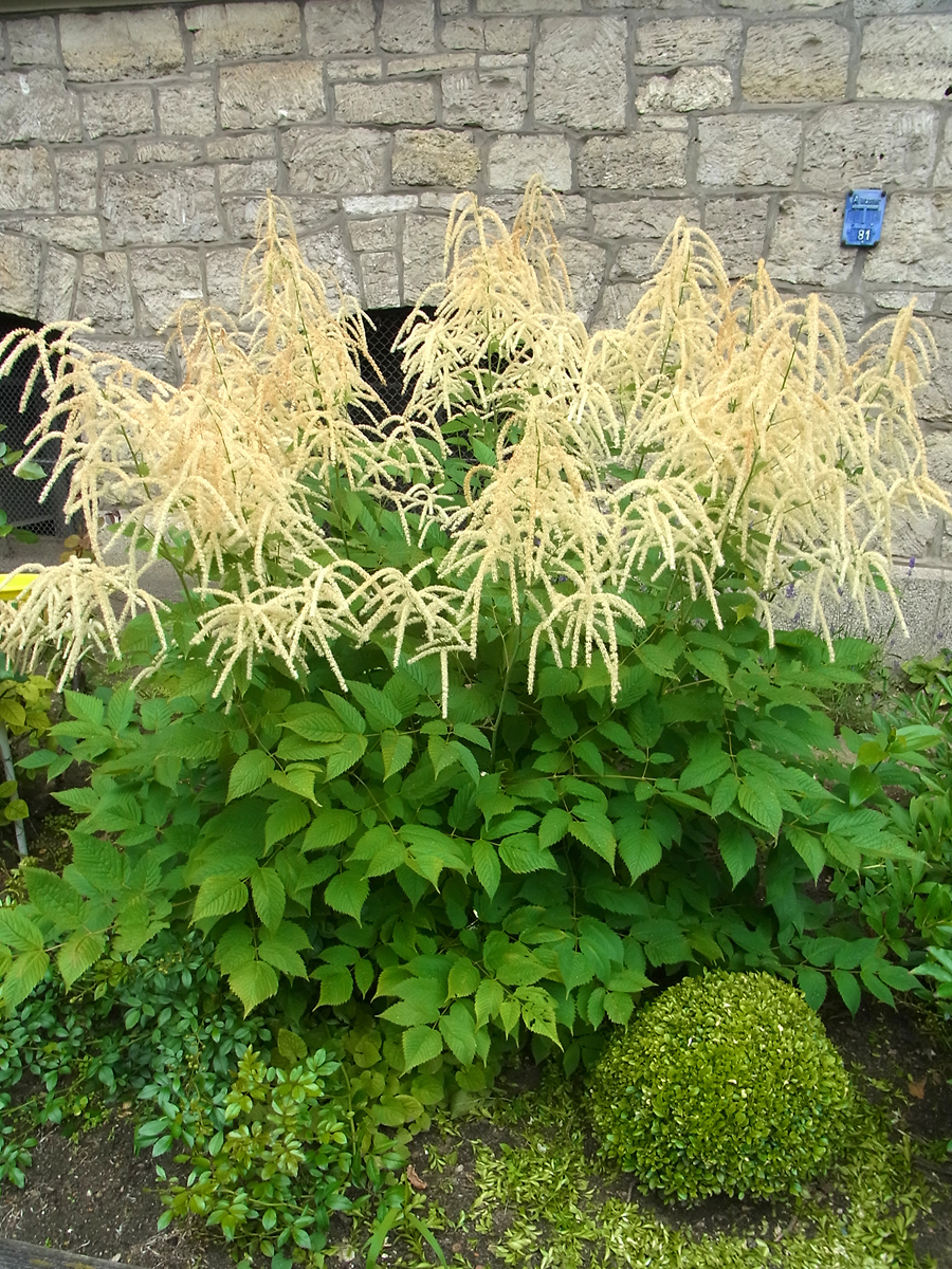 Aruncus dioicus in a front garden in Braunschweig